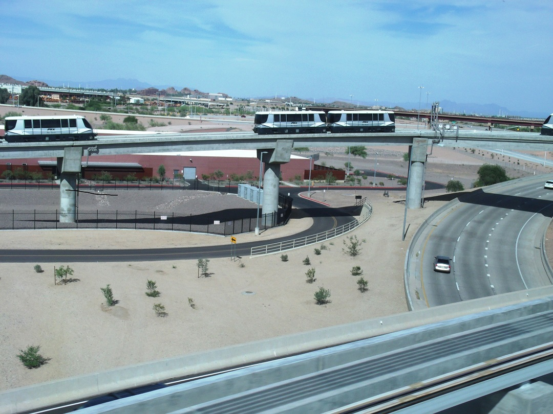 A view of trains on the Phoenix Sky Train in at Sky Harbor International Airport in Phoenix, Arizona.